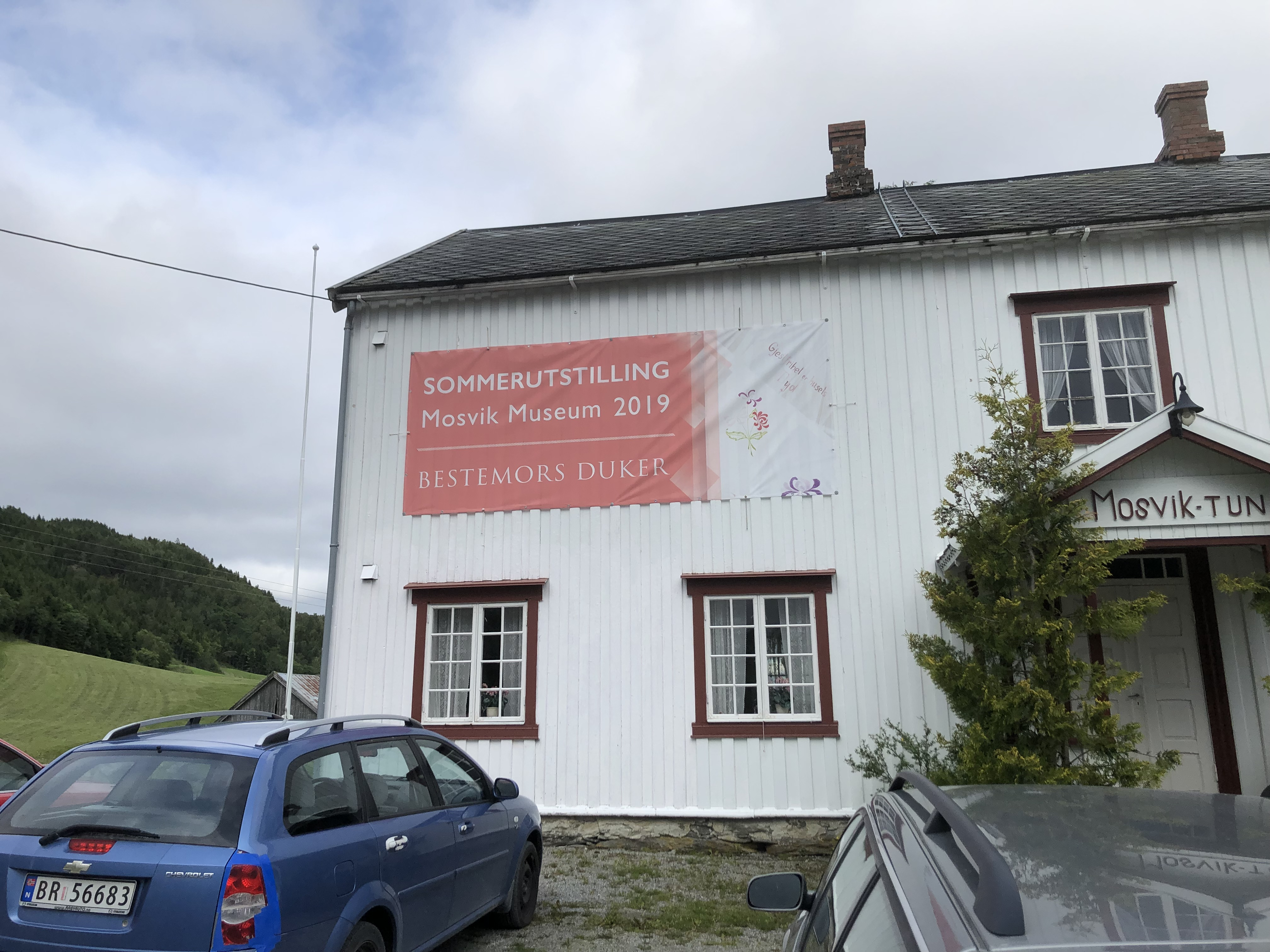 Museum of Mosvik